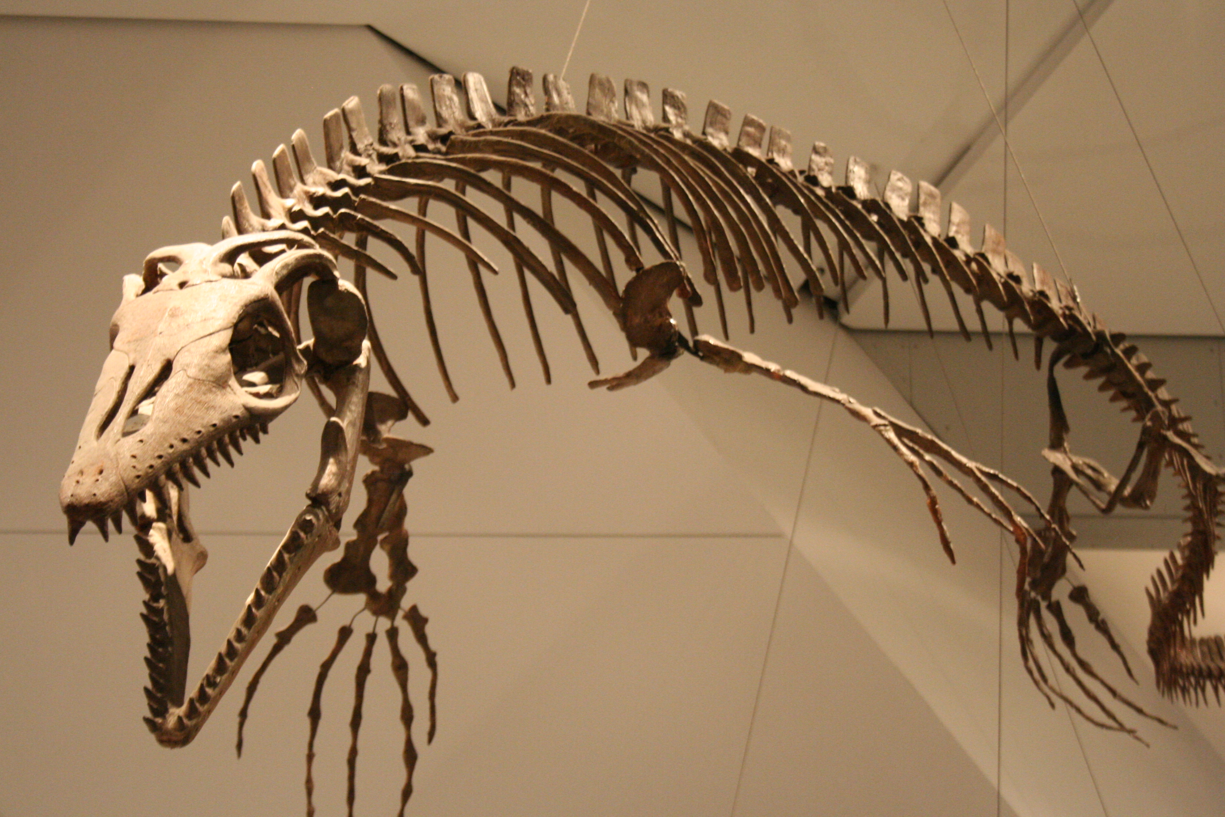 Swimming monster